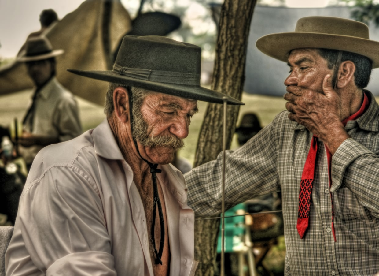 View On Black